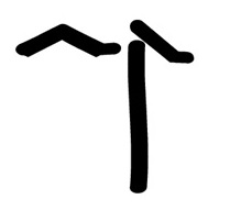 Macedonian geoglyph grphic symbol